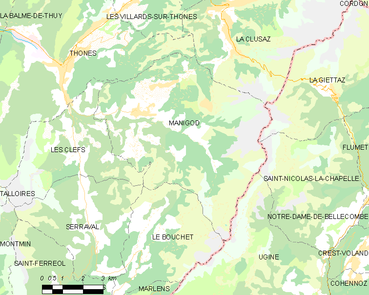 Map of French municipality Manigod